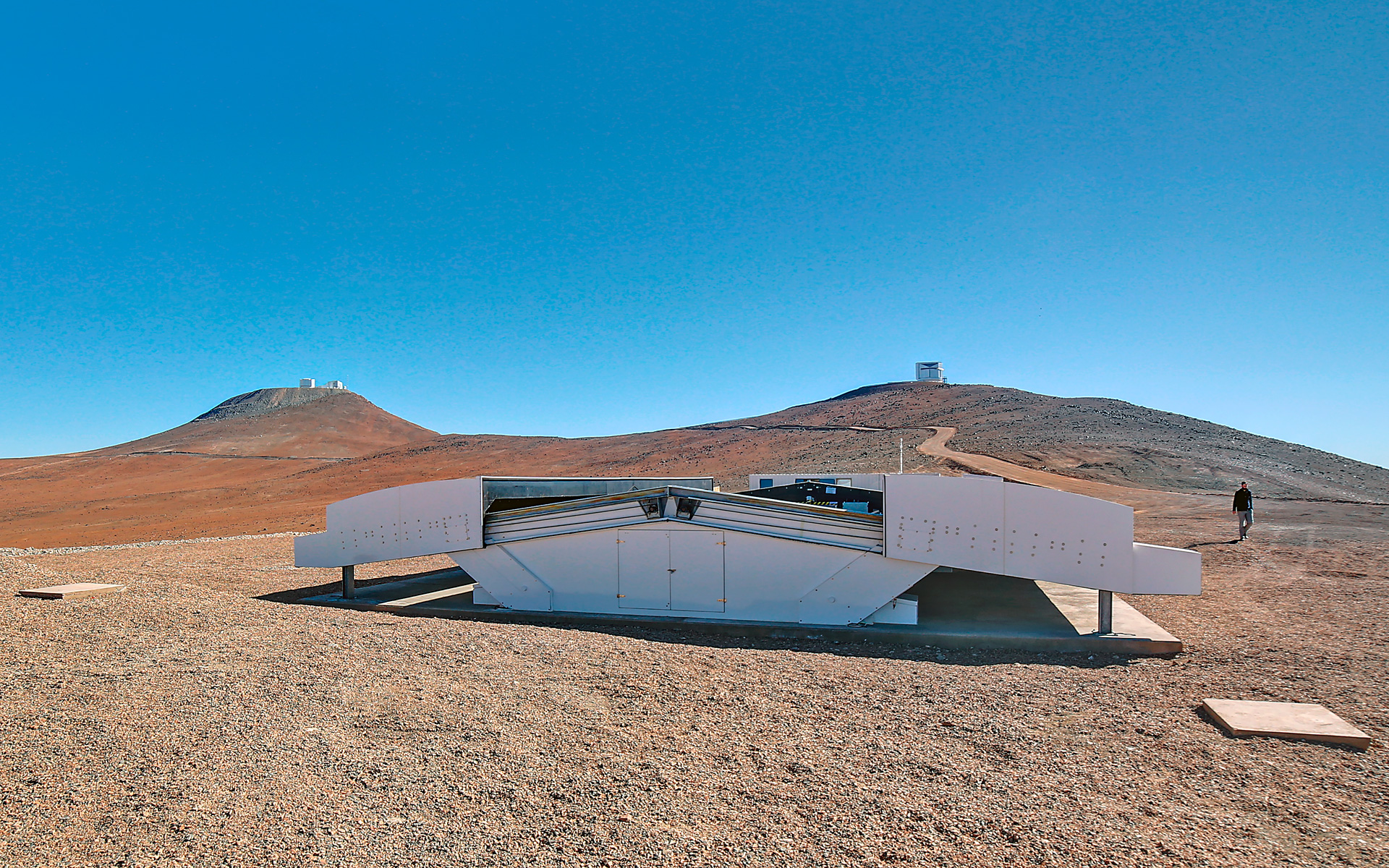 The Next-Generation Transit Survey (NGTS) is located at ESO's Paranal Observatory in northern Chile. This project will search for transiting exoplanets — planets that pass in front of their parent star and hence produce a slight dimming of the star's light that can be detected by sensitive instruments. The telescopes will focus on discovering Neptune-sized and smaller planets, with diameters between two and eight times that of Earth. This image shows the NGTS enclosure in the day. The VISTA (right) and VLT (left) domes can also be seen on the horizon.